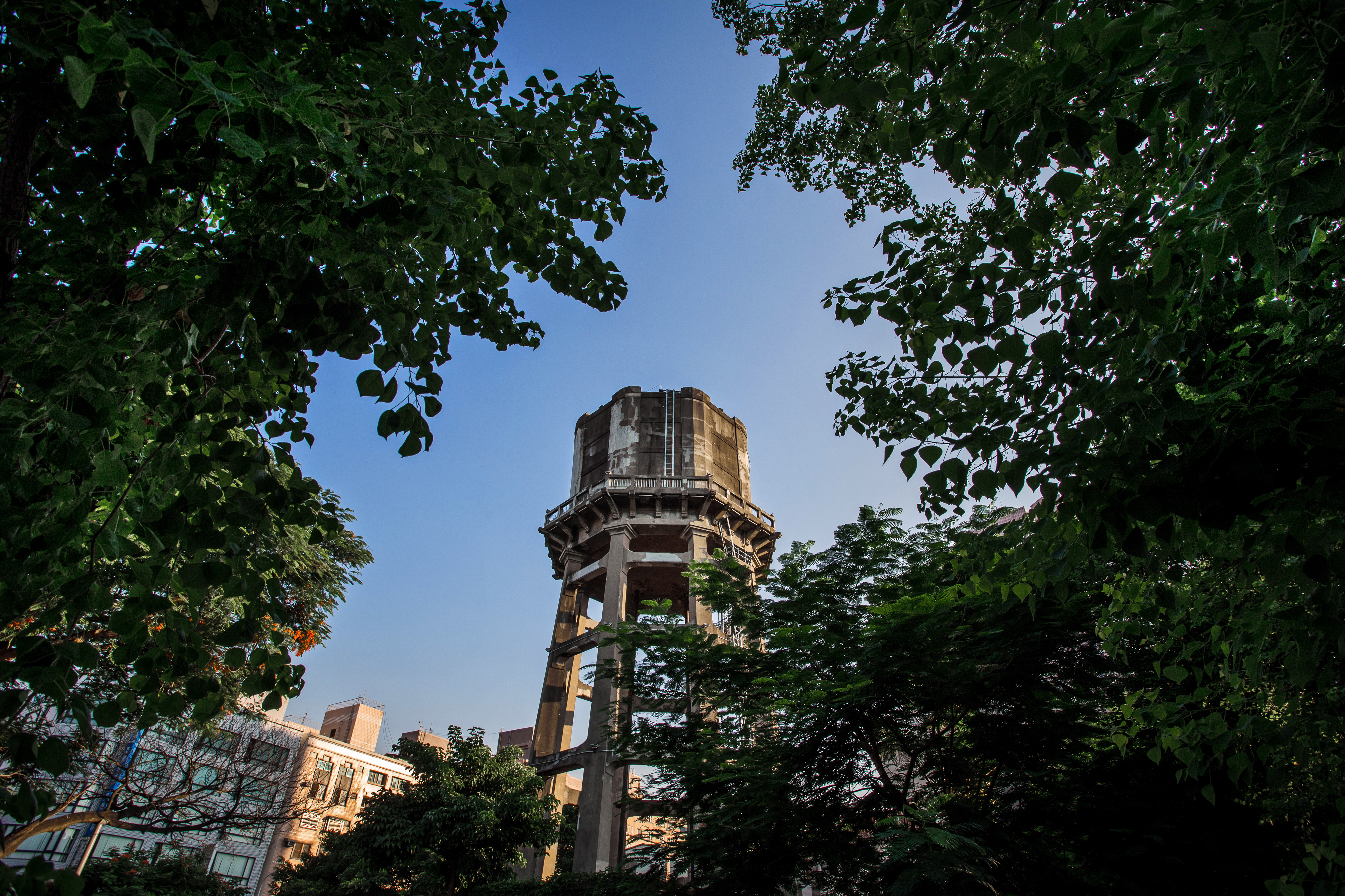 Huwei Water Tower, Huwei Township, Yunlin County, Taiwan.